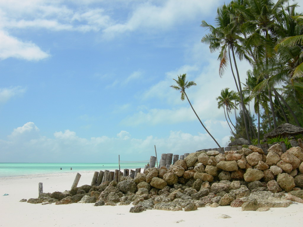 Beach in Makunduchi — in the Unguja Central South Region of Unguja island (Zanzibar Island).